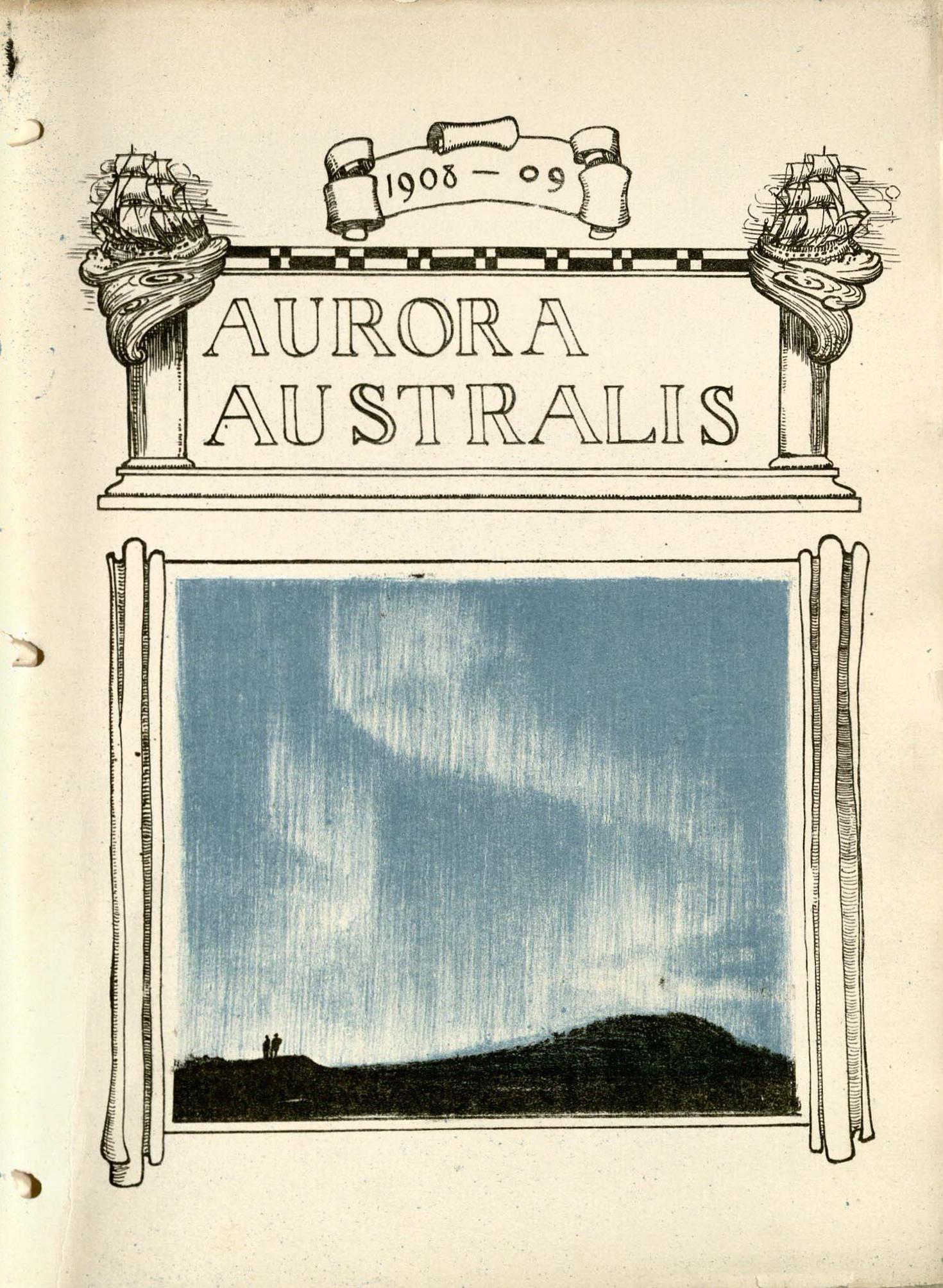 Title page from Aurora Australis, 1908, published at the winter quarters of the British Antarctic expedition. Illustrated with lithographs and etchings; by George Marston and printed at the sign of ʻThe Penguins'; by Joyce and Wild. Latitude 77⁰ 32ʹ South, longitude 166⁰ 12ʹ east. Antarctica 1908. Considered the first book ever printed in the Polar regions; only 90 copies printed. Typ 100.908, Houghton Library, Harvard University